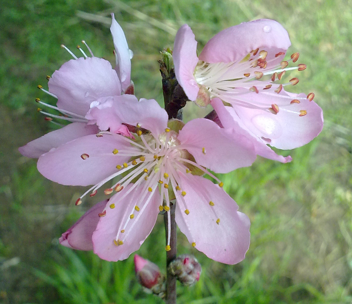 Flowers of Prunus persica var. platycarpa (paraguayan or flat peach) Flores de Prunus persica var. platycarpa (paraguayo)